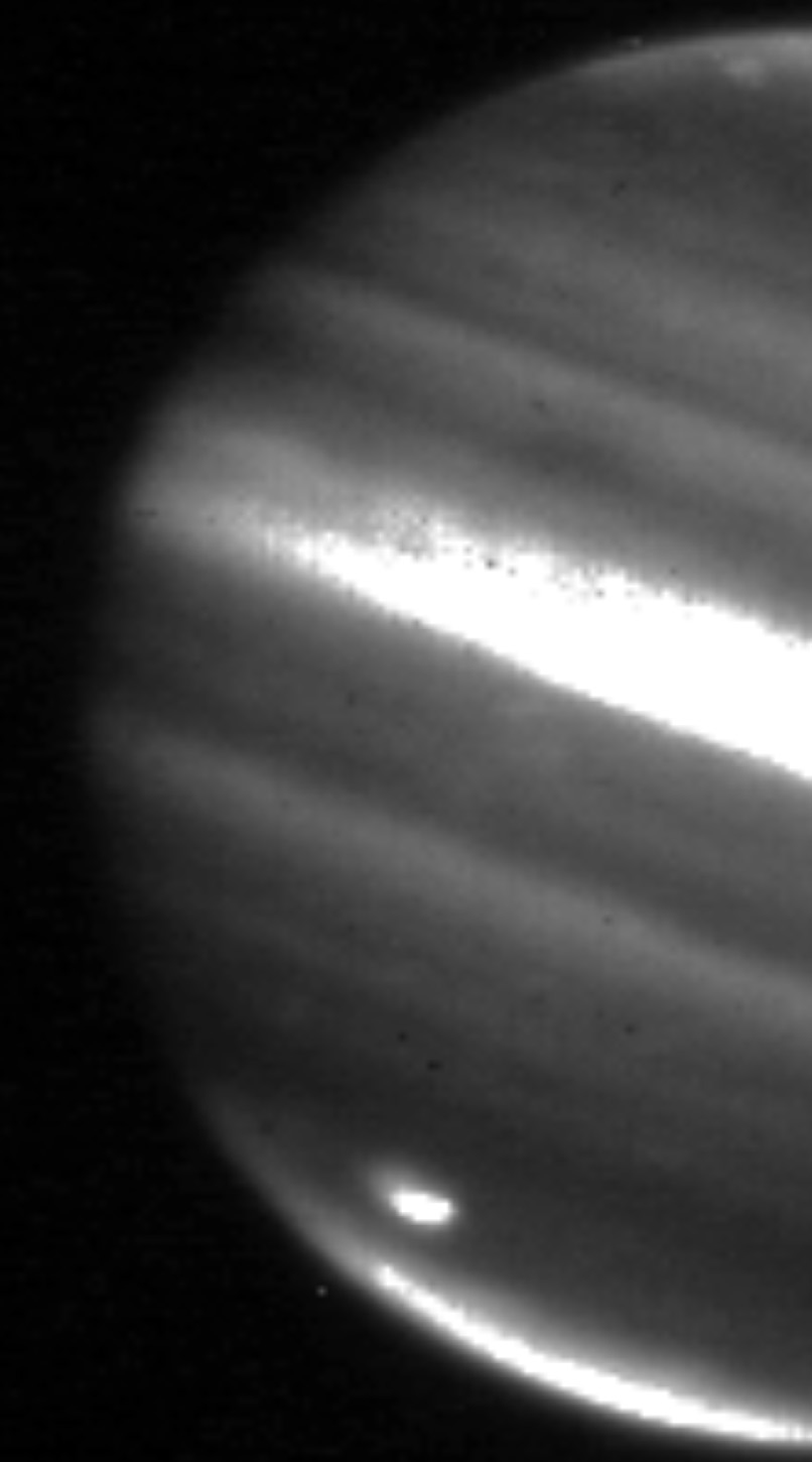 This image shows a large impact shown on the bottom left on Jupiter's south polar region captured on July 20, 2009, by NASA's Infrared Telescope Facility in Mauna Kea, Hawaii. New NASA Images Indicate Object Hits Jupiter. NASA, 07-20-2009.